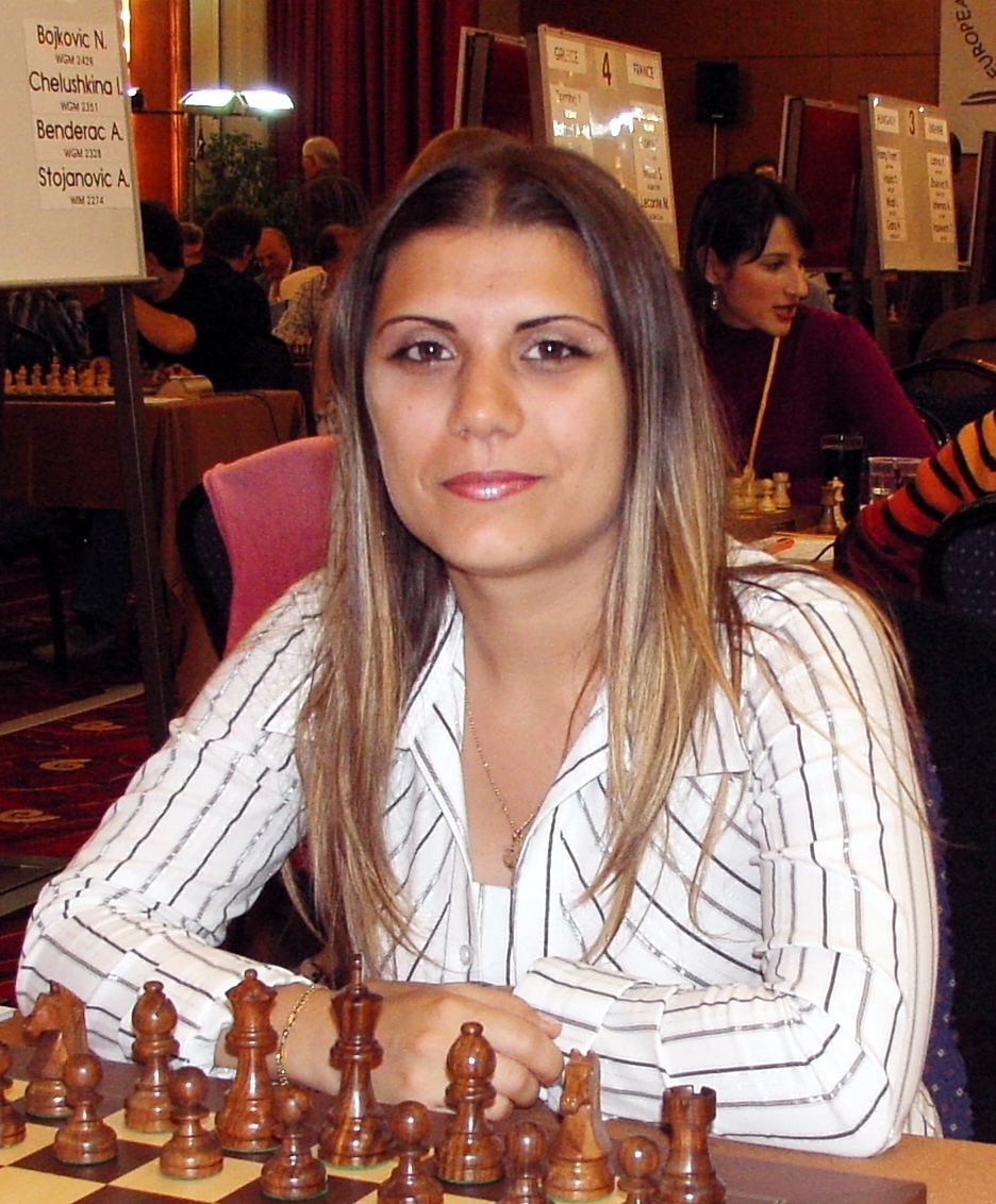 WGM Nelly Aginian Armenia, EuroChess Iraklion 2007